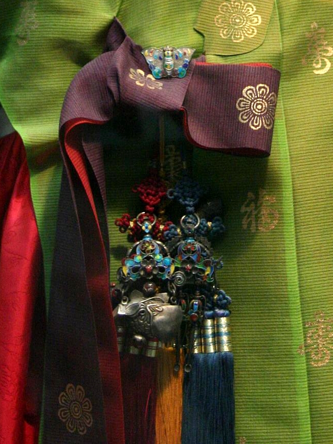 Norigae at National Folk Museum of Korea, Seoul, South Korea.